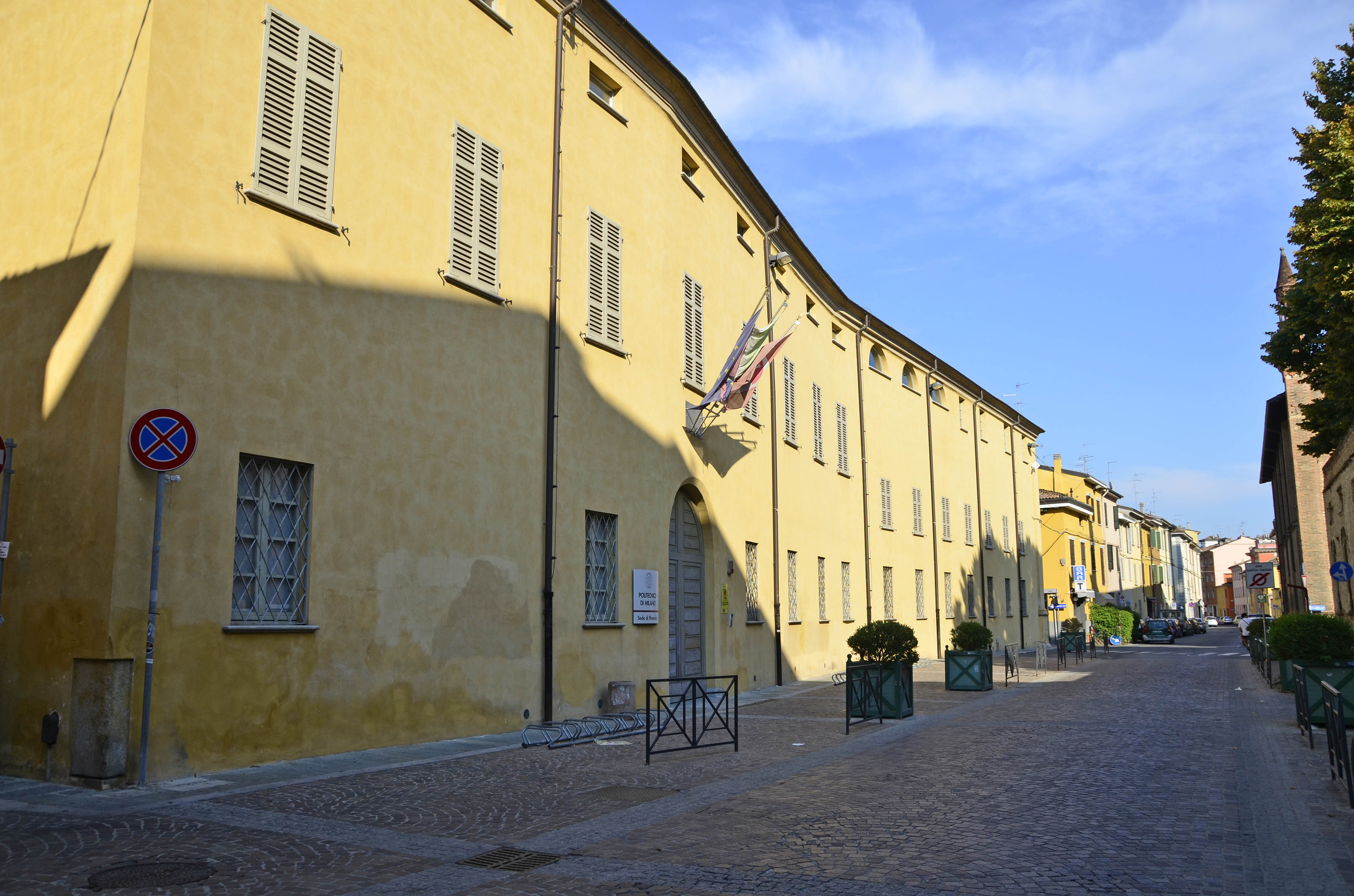 This is a photo of a monument which is part of cultural heritage of Italy.